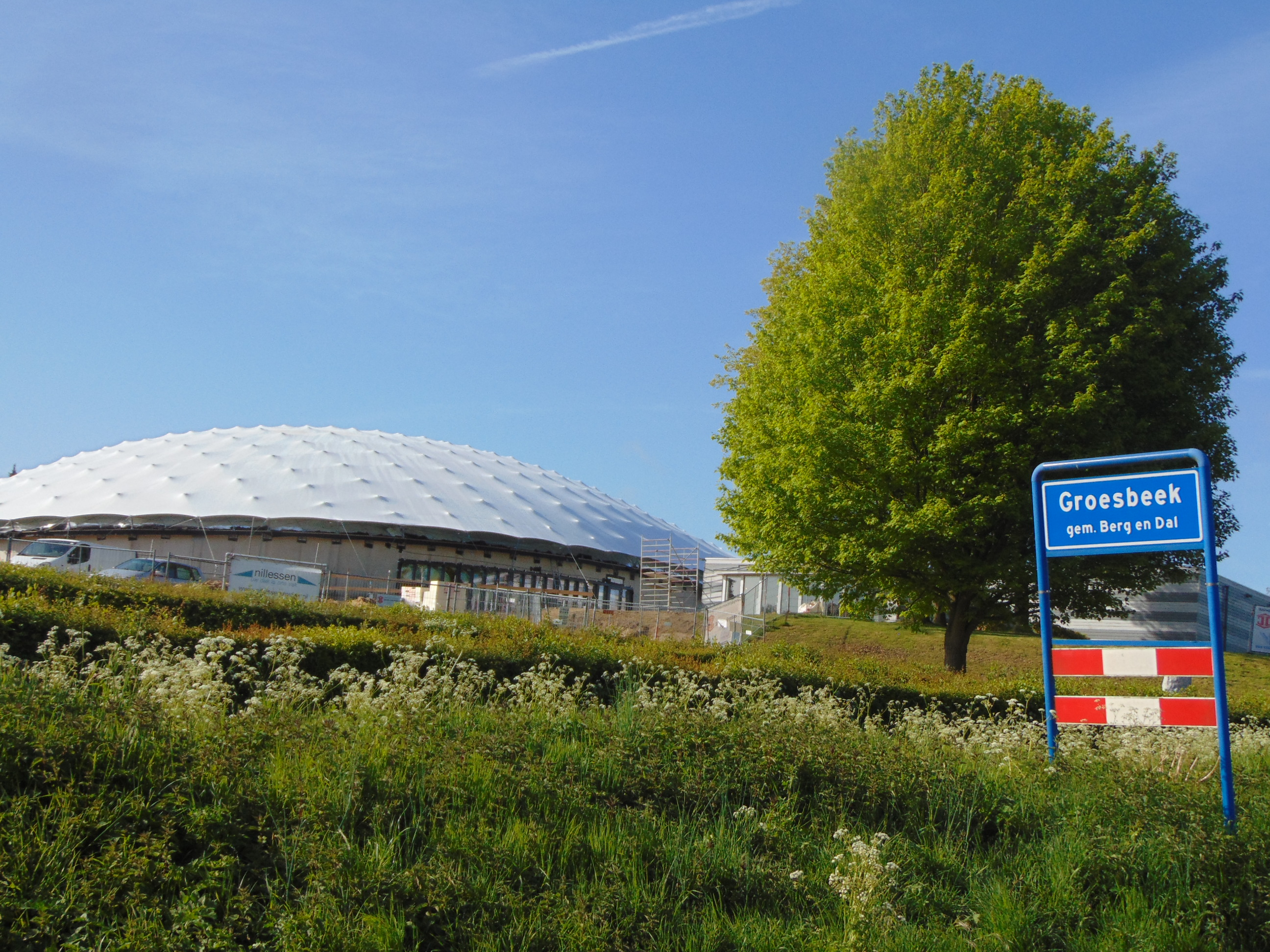 Vrijheidsmuseum in opbouw in Groesbeek, 9 mei 2019